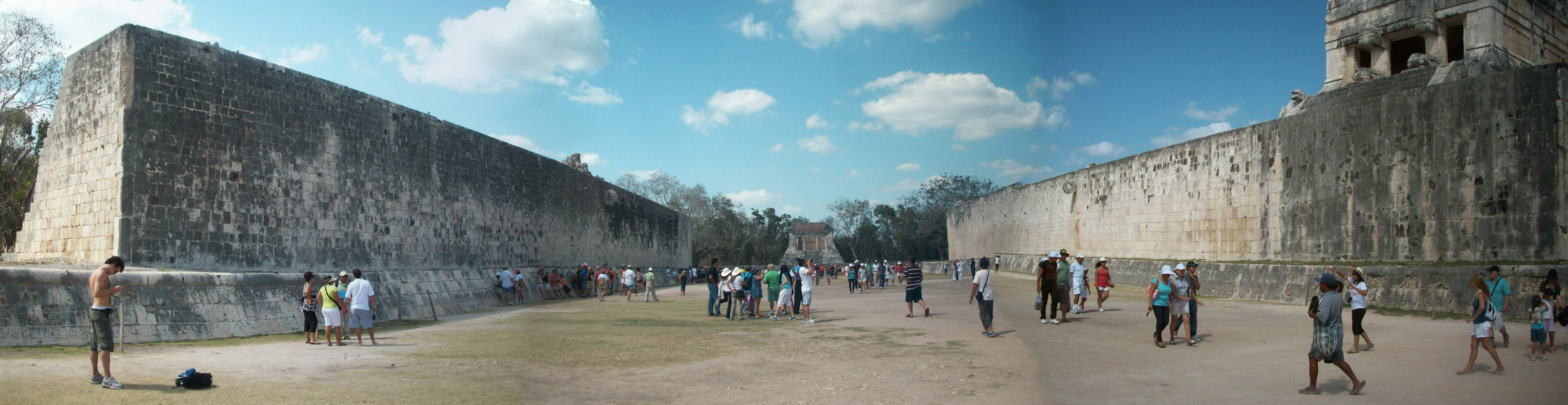 A panoramic view of the ball court at Chichen Itza.